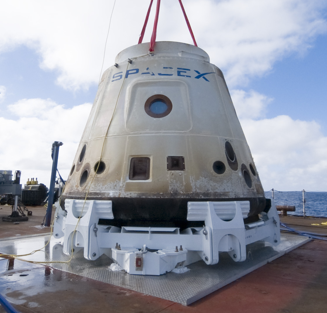 On December 8, 2010, the Dragon spacecraft landed safely in the Pacific Ocean, making it the first commercial spacecraft to successfully return from orbit. Dragon rests on a barge as it makes the trip back to shore.